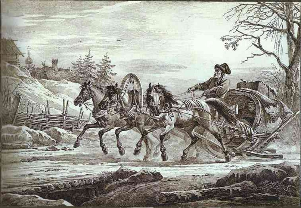 Aleksander Orlowski, "Traveler in a Kibitka (Hooded Cart or Sledge)" , lithograph, 1819, 39,5x57,3 cm, The Hermitage Museum, St. Petersburg, Russia